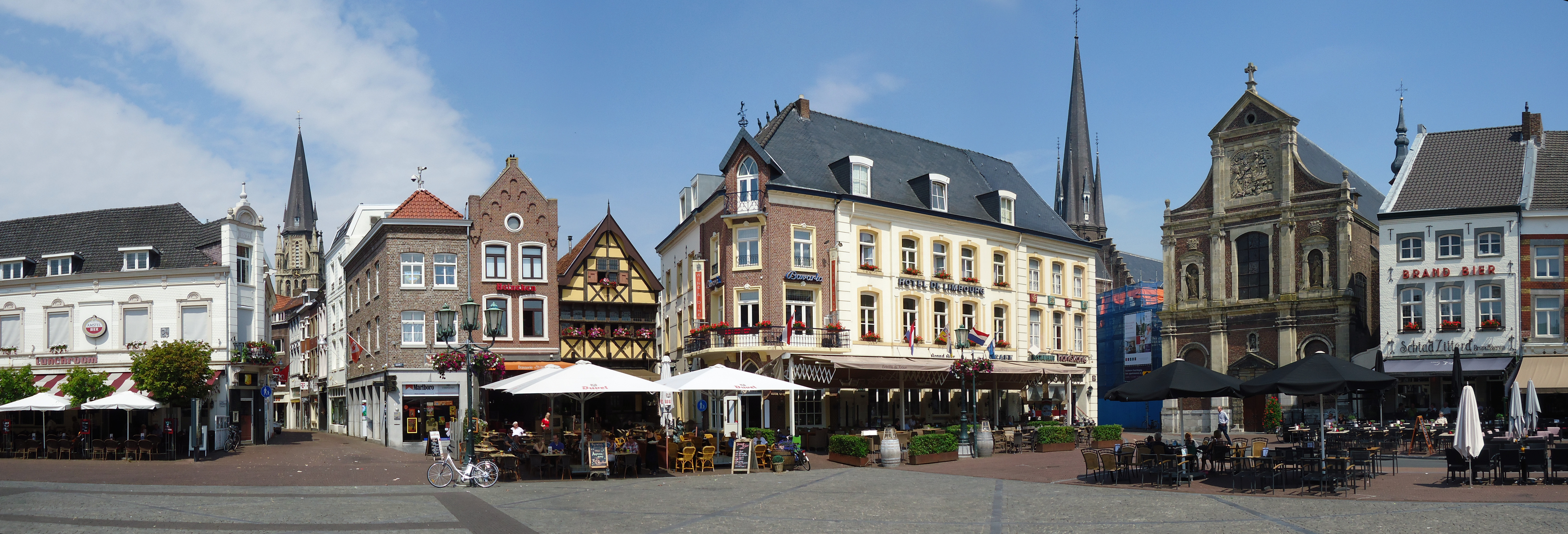 Impressions of Sittard